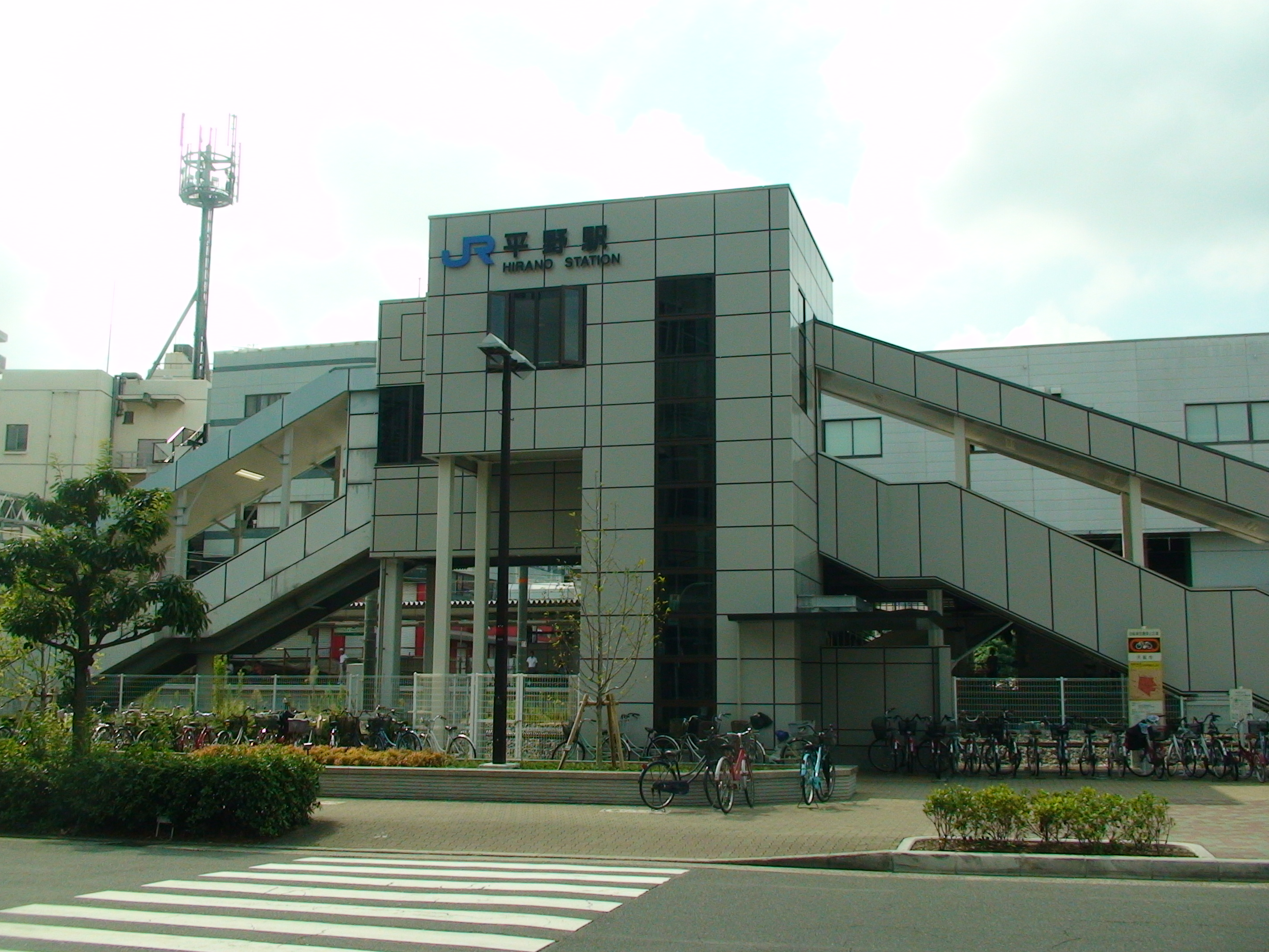 JR West Hirano Station north side